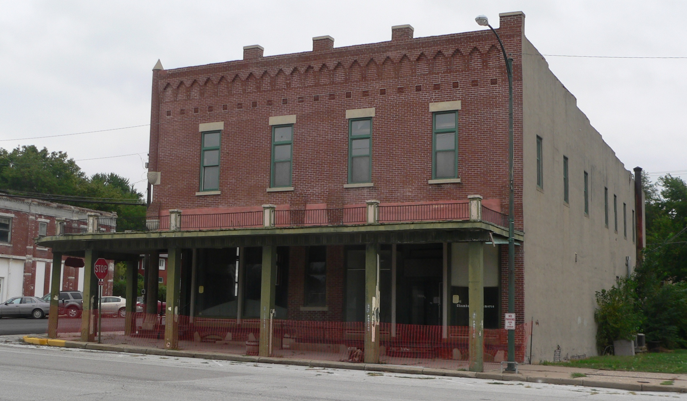 Walnut Inn, located at northeast corner of 3rd and Main Streets in Tarkio, Missouri; seen from the southwest.